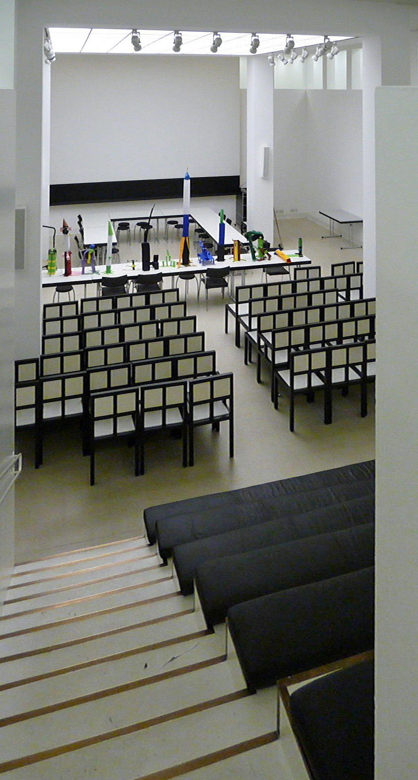 Deutsches Architekturmuseum in Frankfurt/Main. Interior: auditory. Architect: Oswald Mathias Ungers